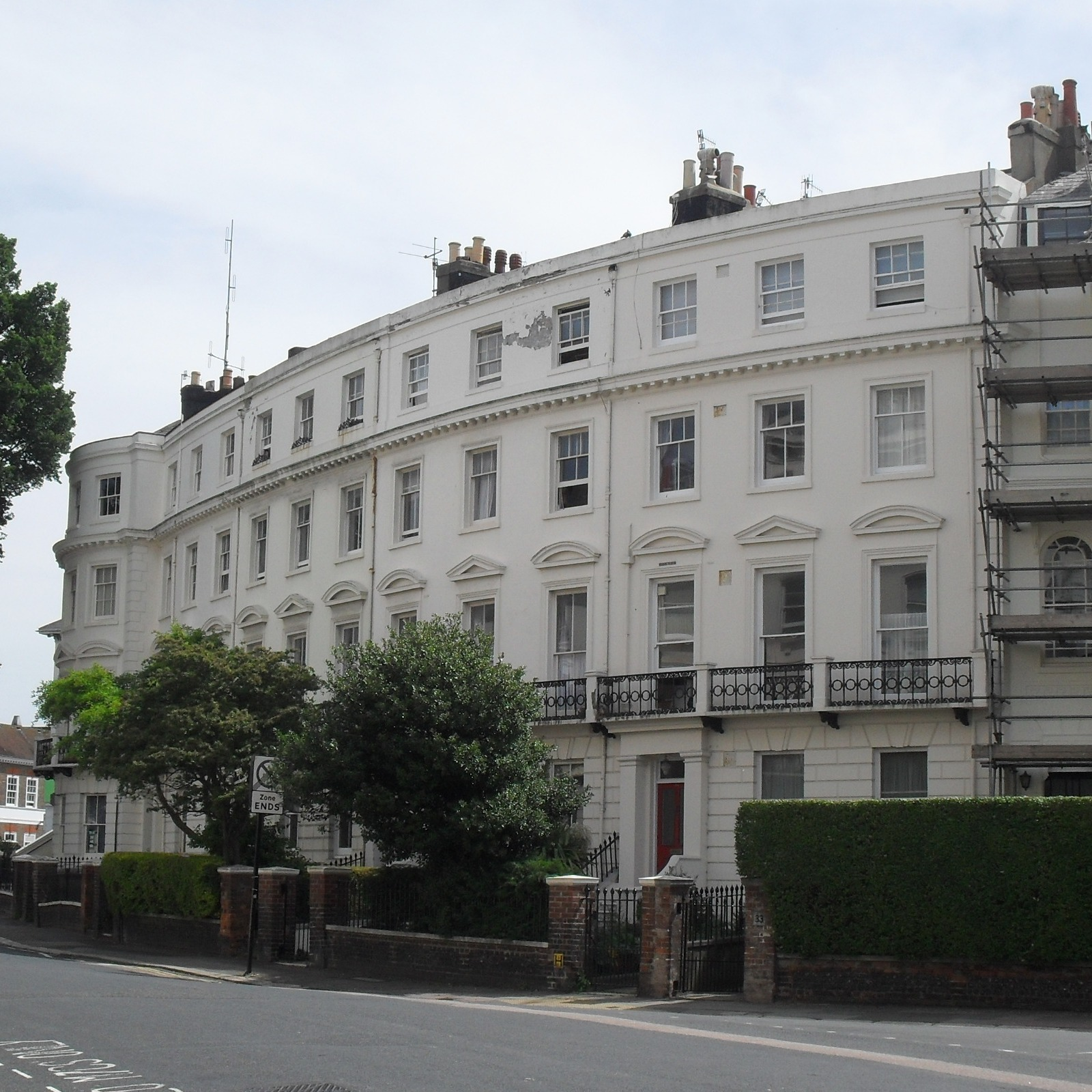 34–38 Montpelier Crescent, Brighton, City of Brighton and Hove, England. Listed at Grade II by English Heritage (NHLE Code 1380364)